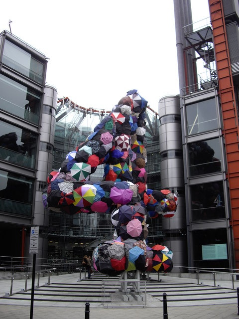 Channel Four Building The Big Art Project The 4 has been covered with umbrellas as part of the project.